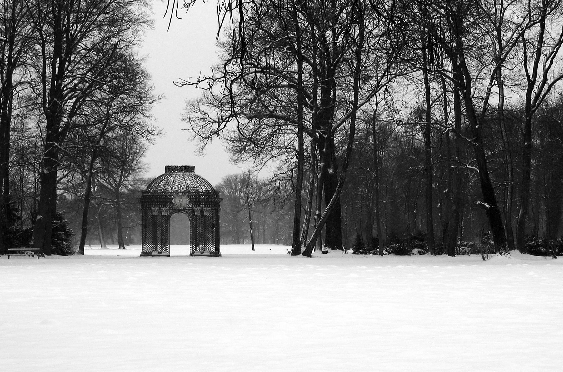 The Gitterpavillon at Sanssouci, Potsdam, Germany